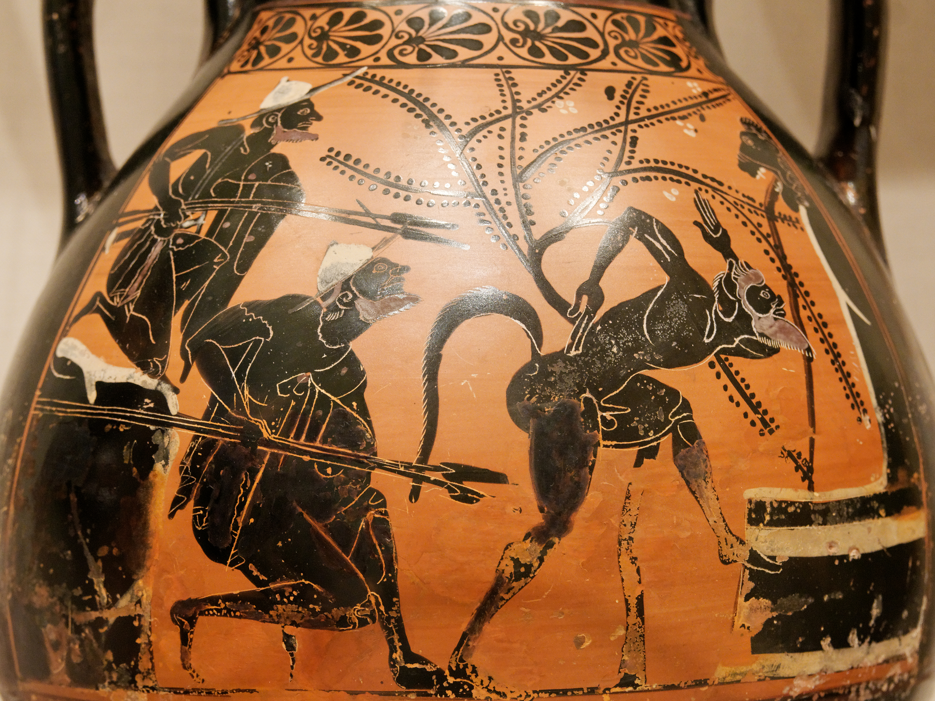 Midas and a henchman (or two henchmen of King Midas) lying in wait for Silenos, side A from an Attic black-figure panel amphora.